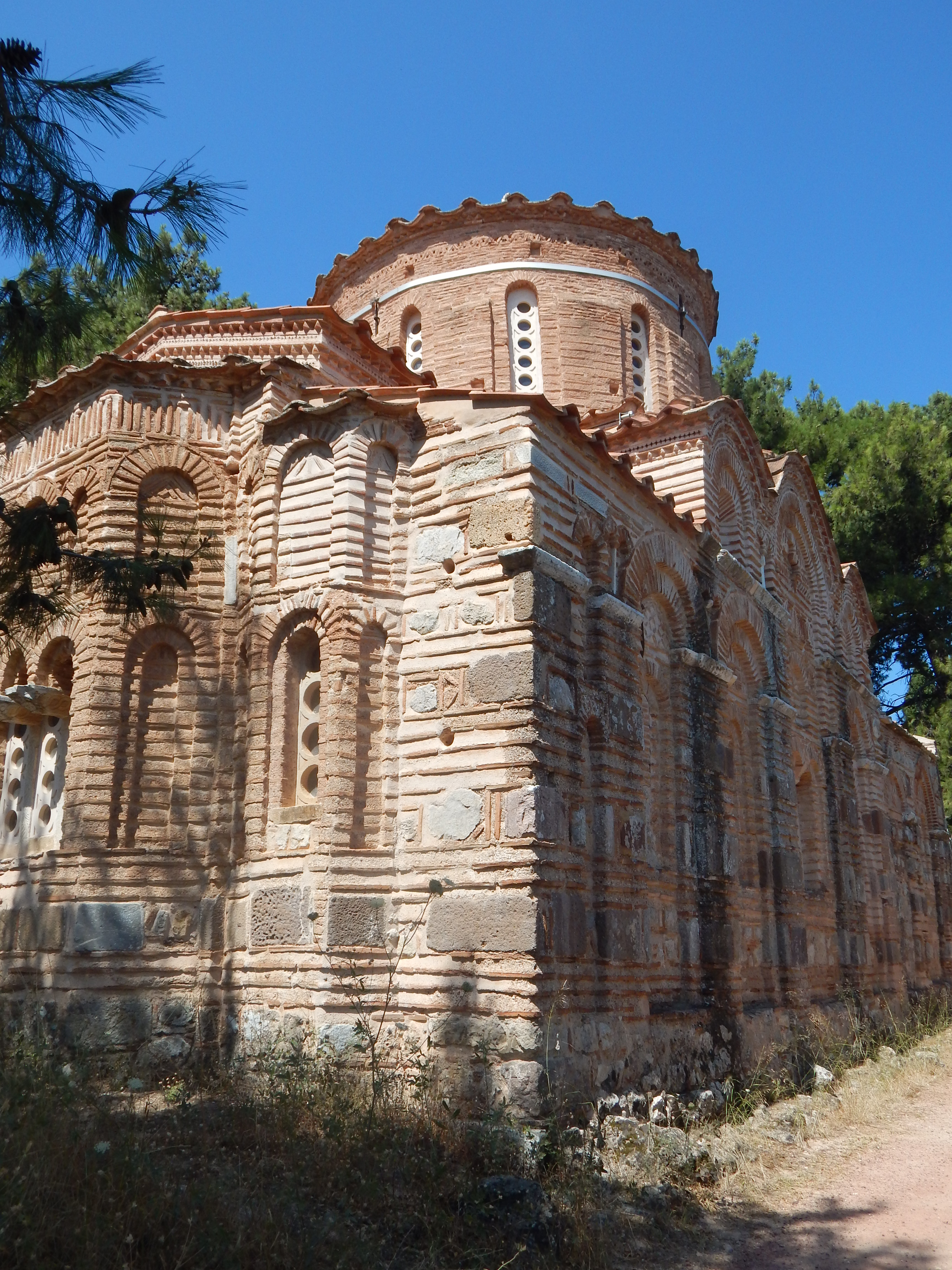 Panagia Krina, near Vaviloi, Chios, Greece«Ναός Παναγίας Κρήνας, Βάβυλοι»